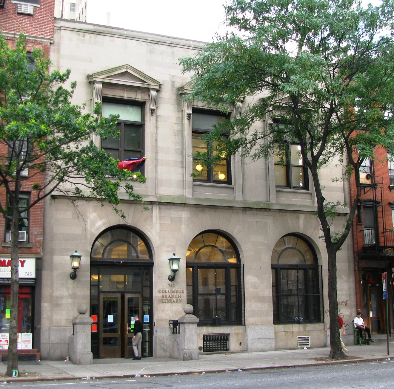 The Columbus Branch of the New York Public Library, funded by Andrew Carnegie.